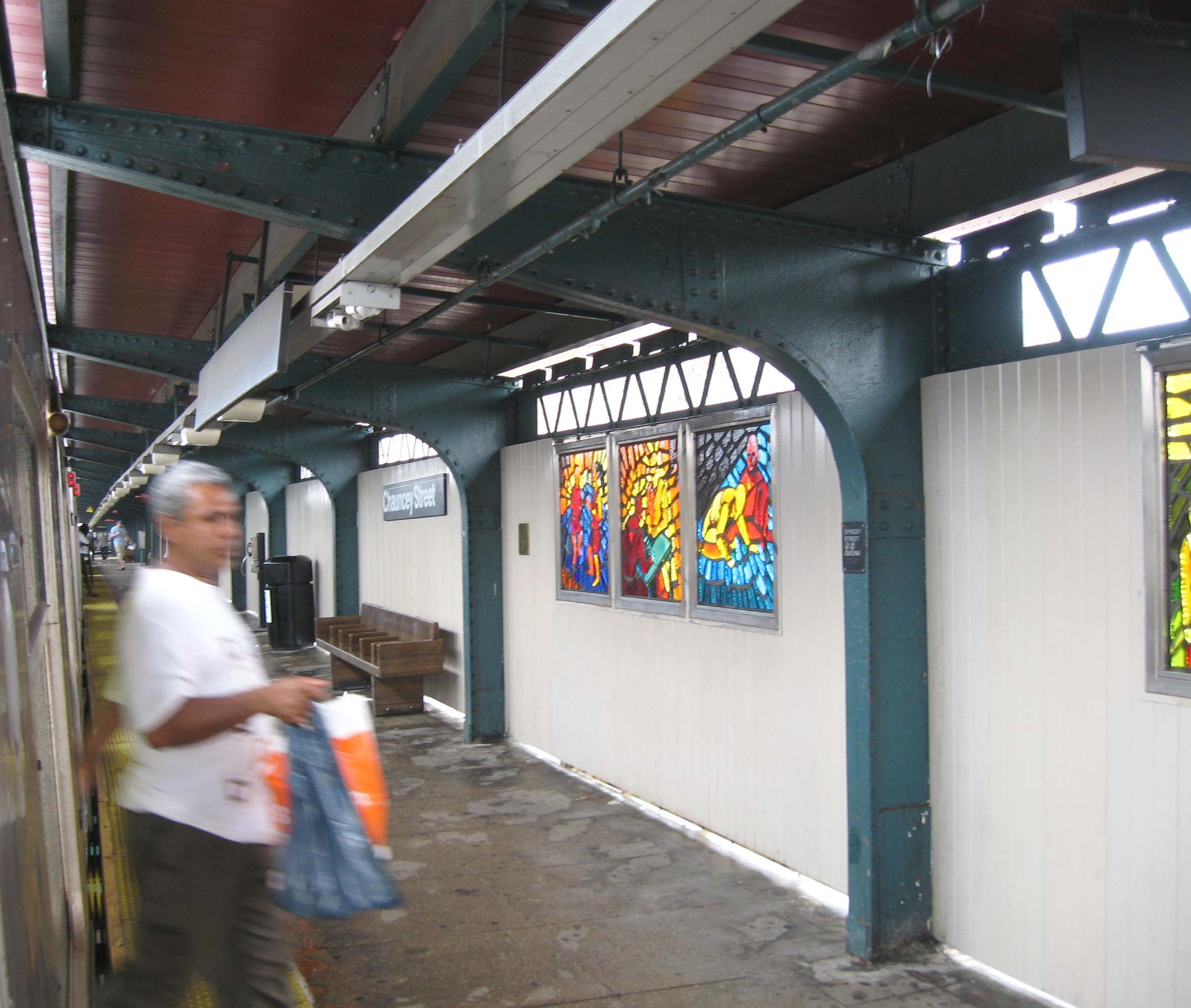 Looking south at RR northbound platform (compass southeastbound) of Chauncey Street (BMT Jamaica Line) on a rainy midday.